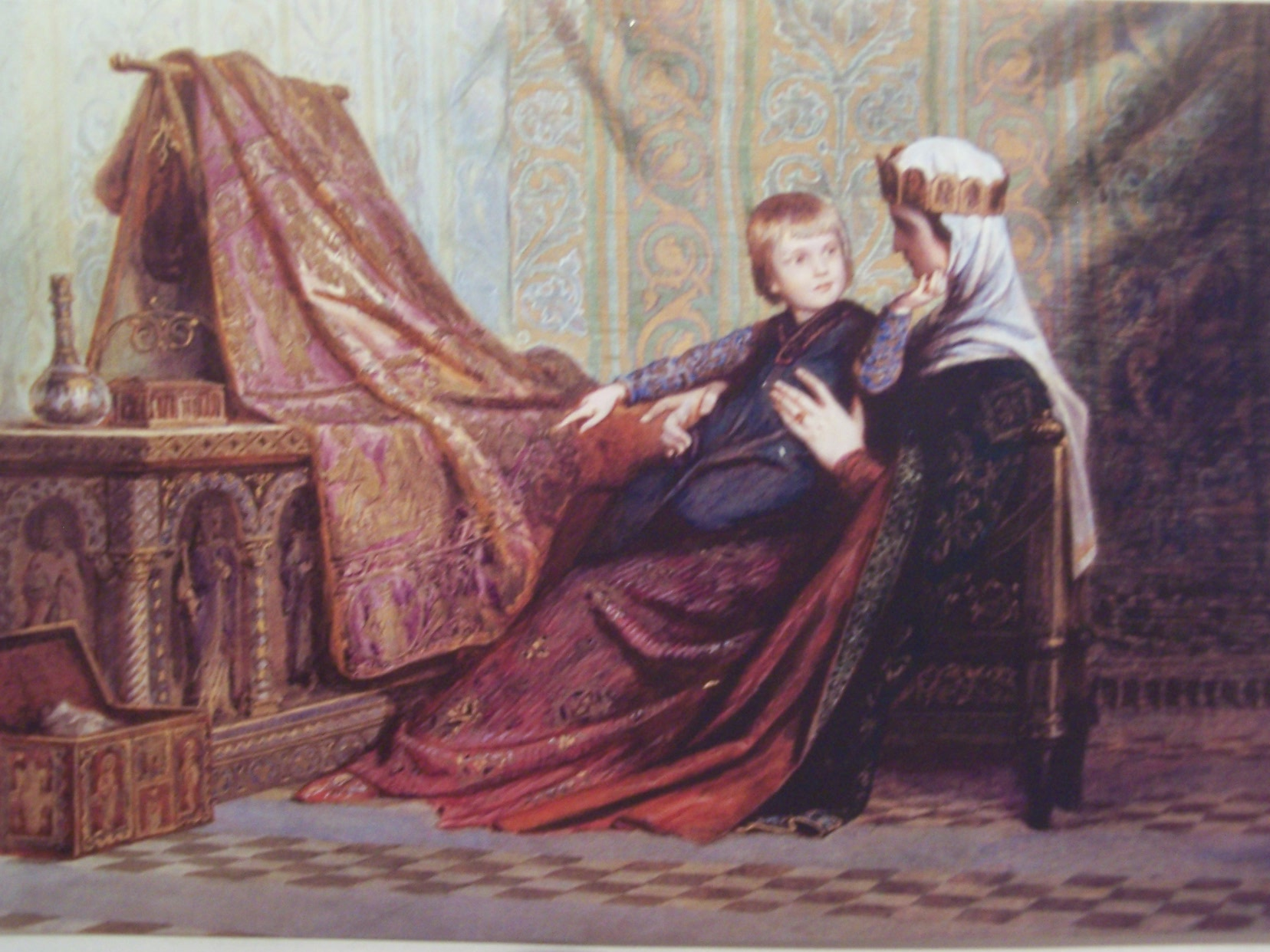 Saint Emeric of Hungary and his mother Gisela of Hungary.